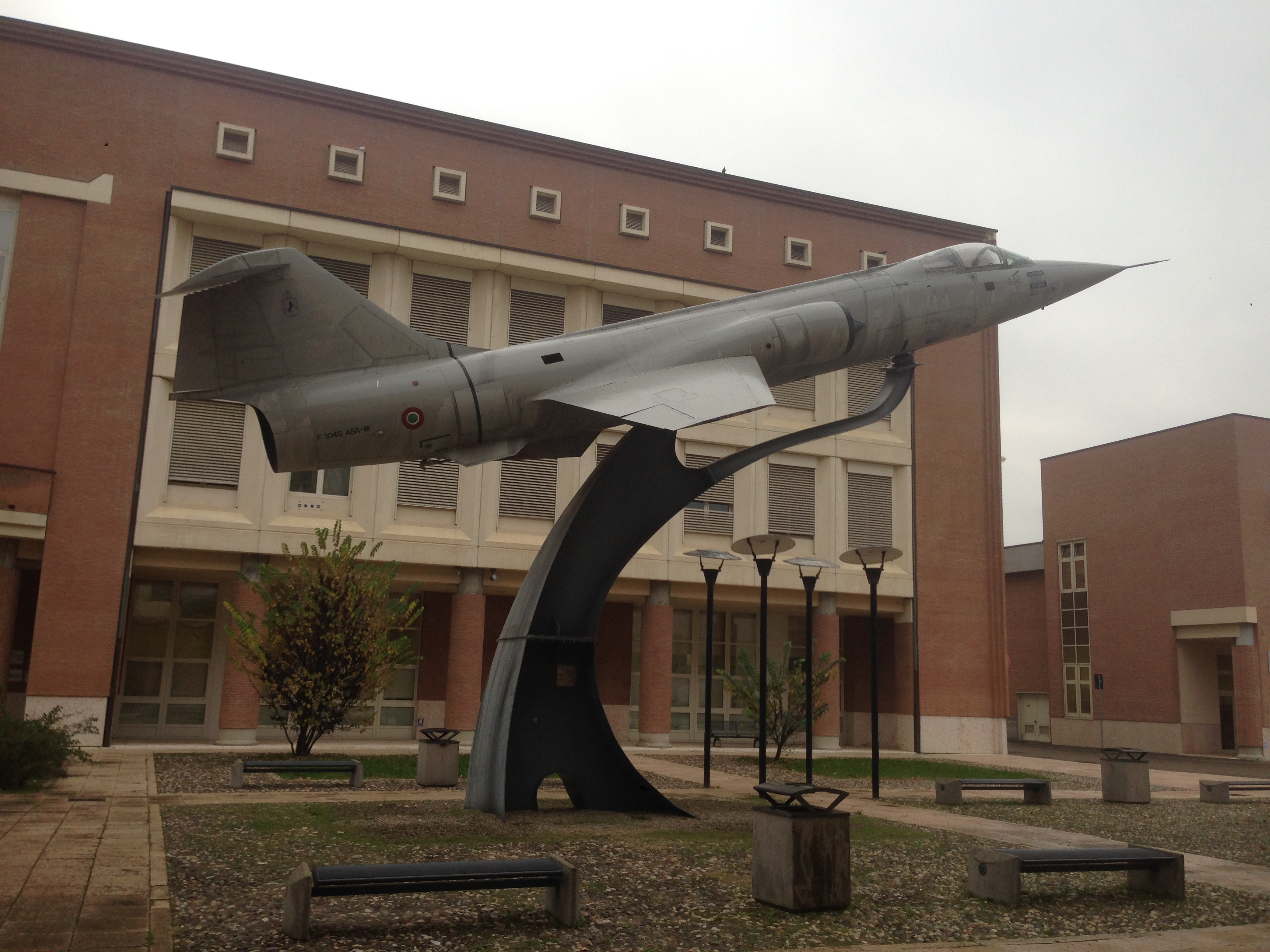 University of Modena and Reggio Emilia